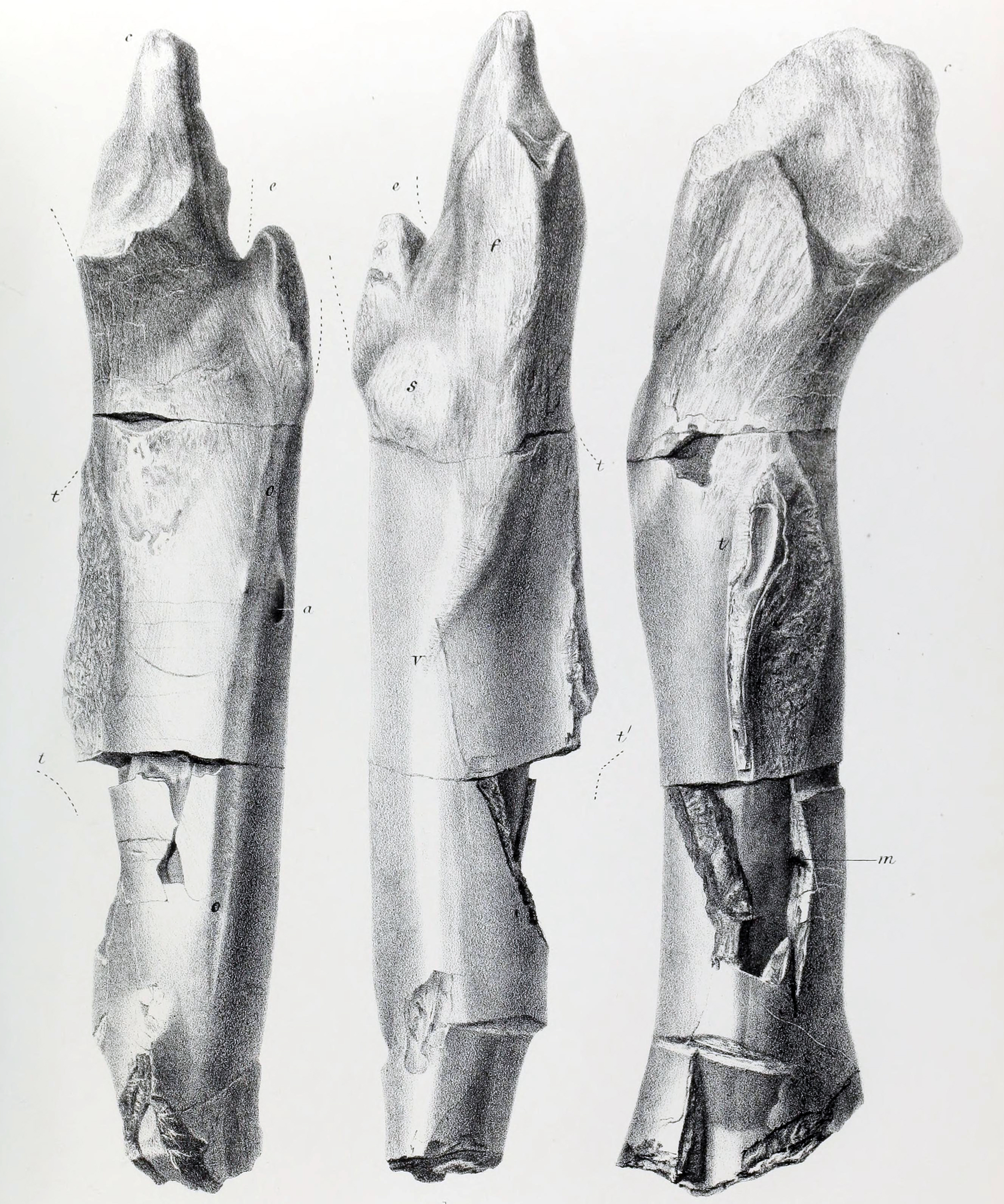 Femur of Merosaurus.